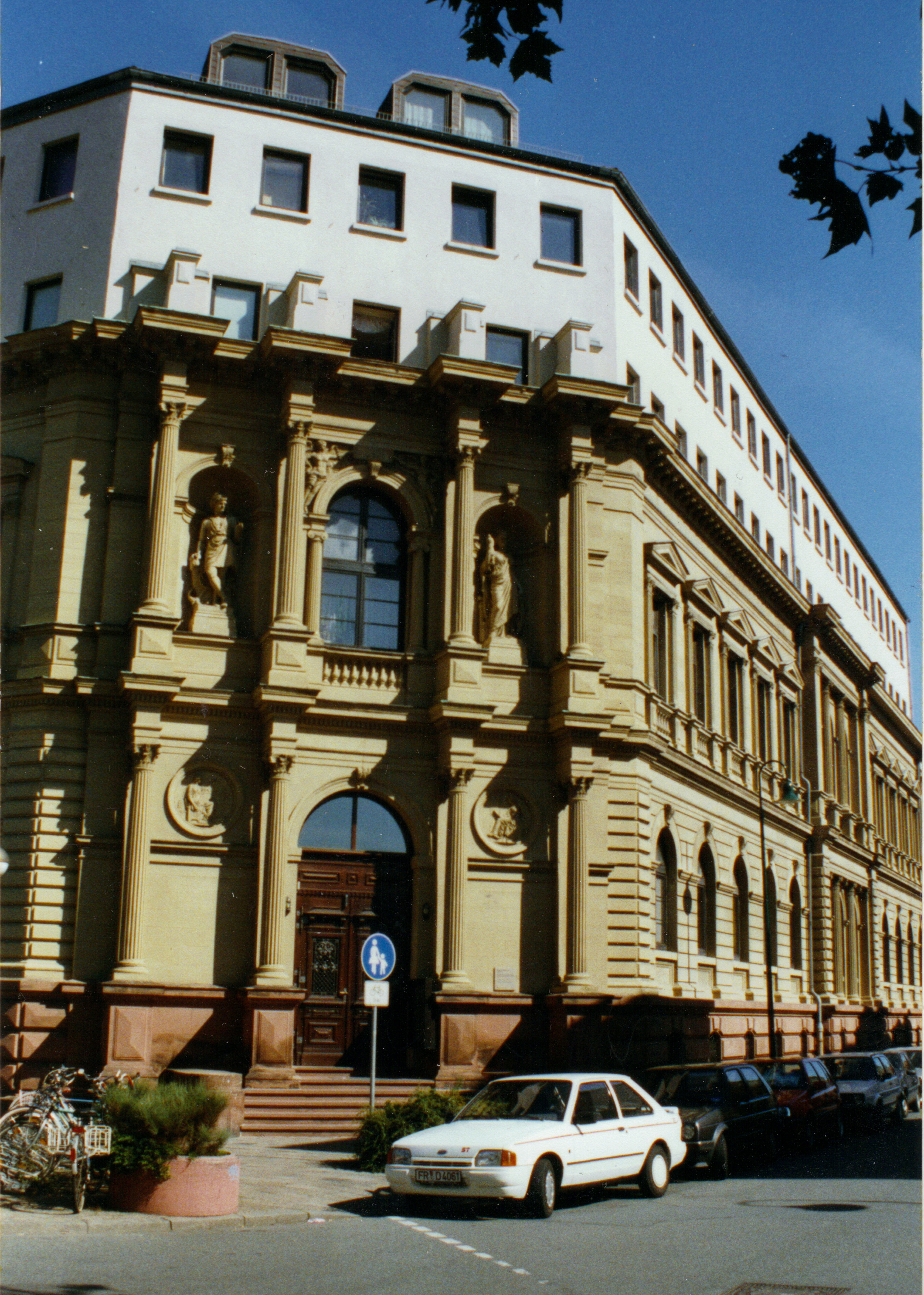 Darmstadt (Germany): Bank fuer Handel und Industrie - now an apartment building.